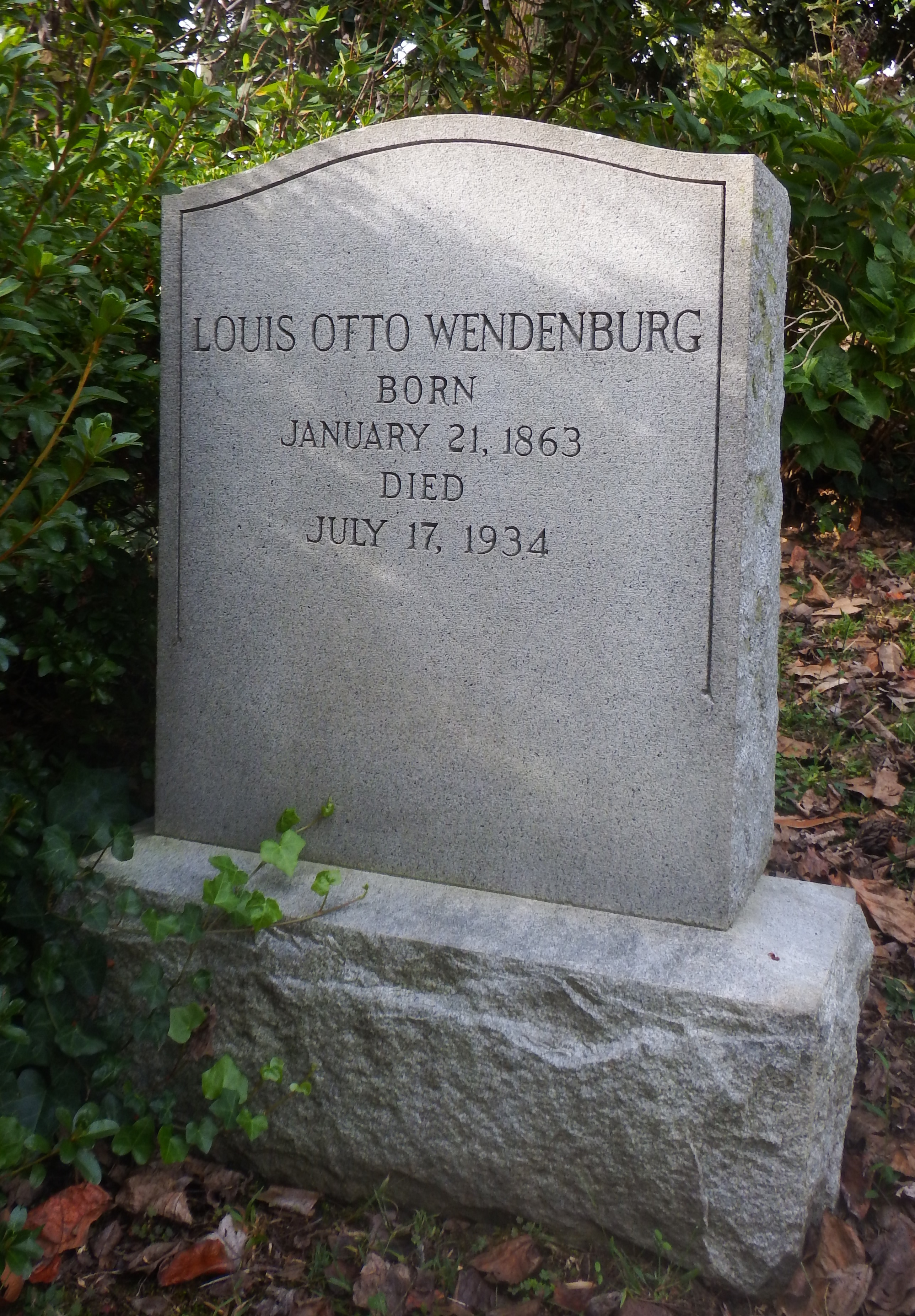 Tombstone of Louis Otto Wendenburg at Hollywood Cemetery, Richm ond, VA